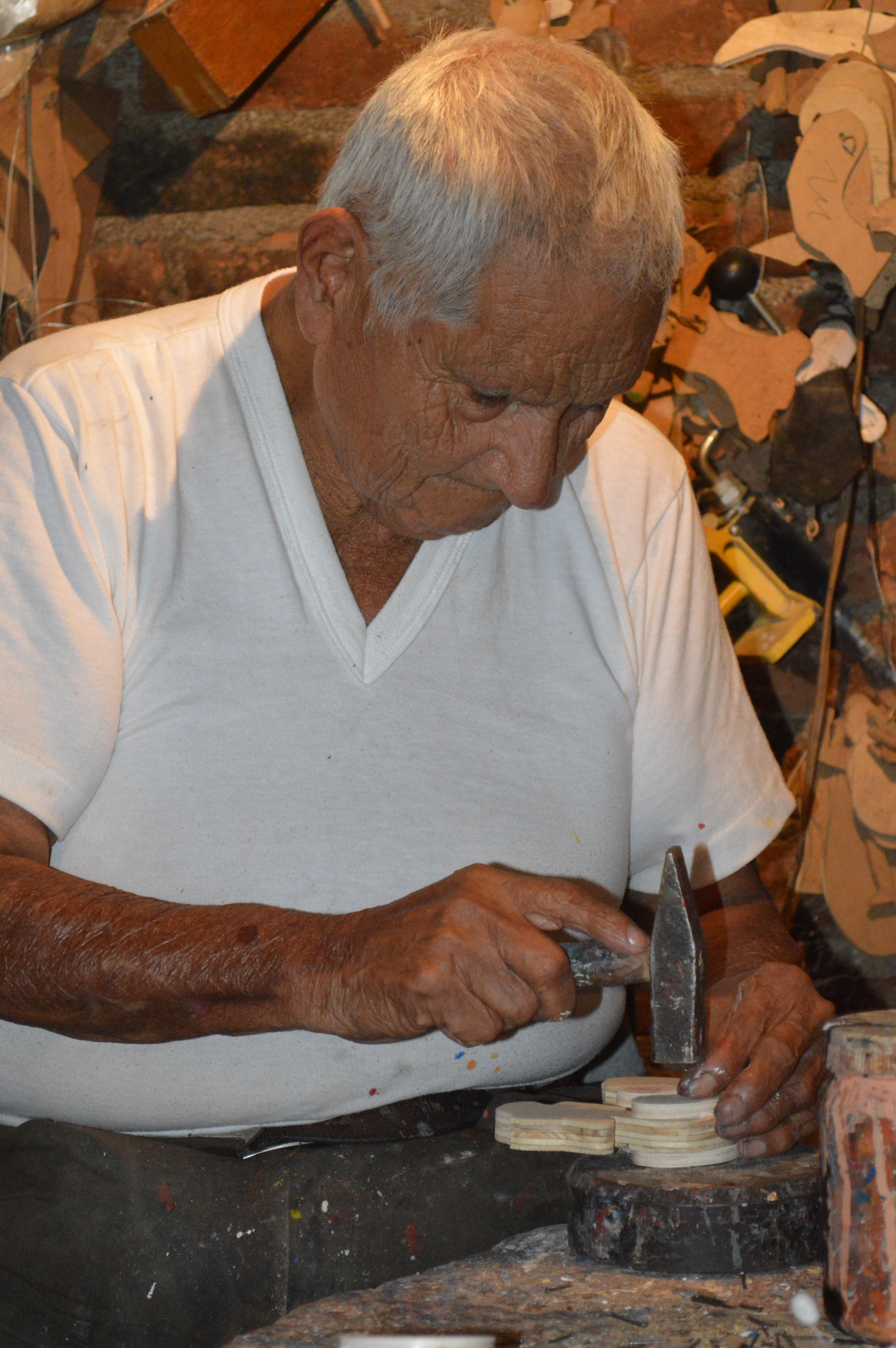 Gumercindo (Sshinda) España at his workshop in Juventino Rosas, Guanajuato, Mexico